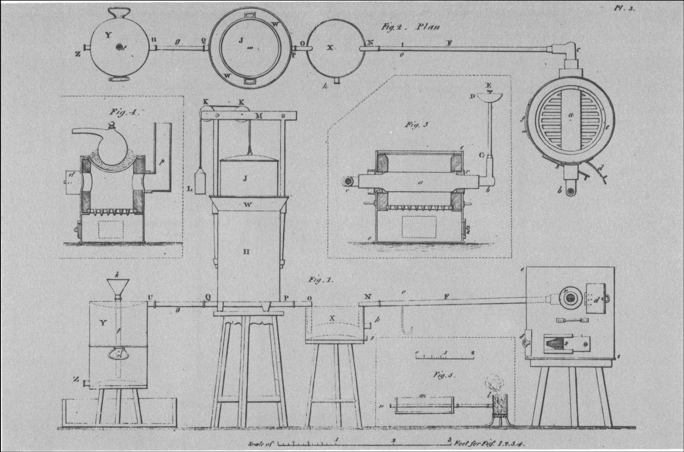 Scientific paper with diagrams.